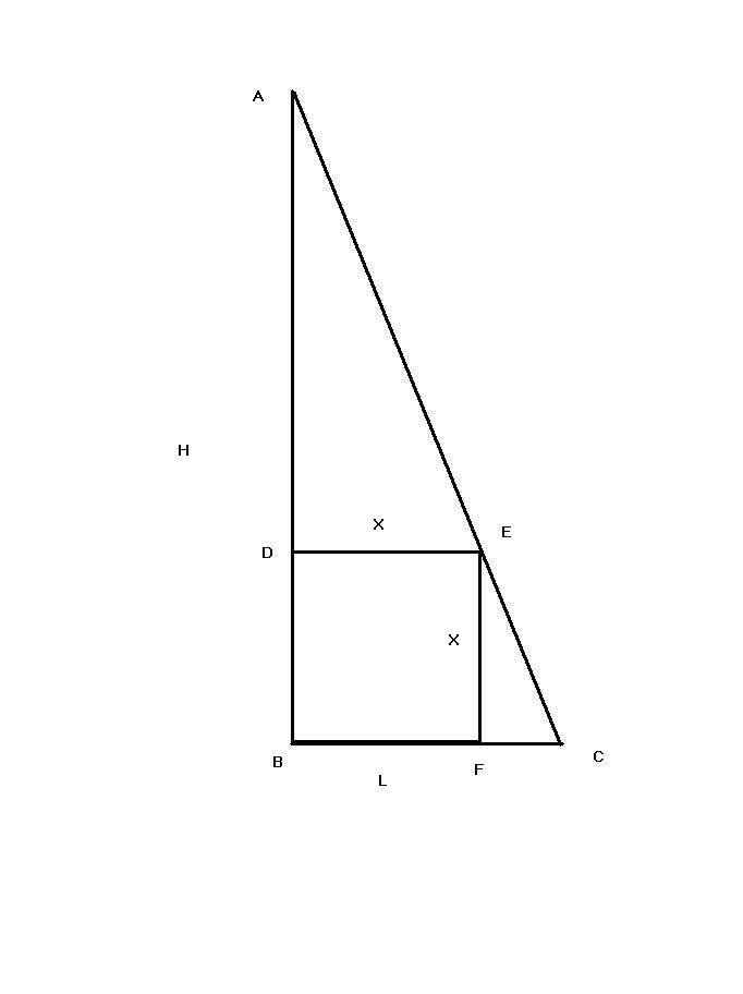 Square in a right angle triangle 勾中容方